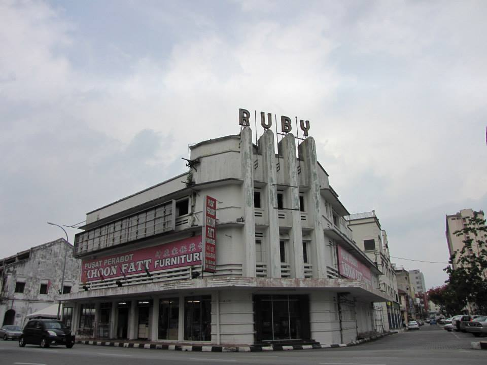 Front view of Ruby Cinema, Ipoh.